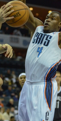 Charlotte Bobcats forward Jeff Adrien in a game vs. Brooklyn Nets at Charlotte's Time Warner Cable Arena.